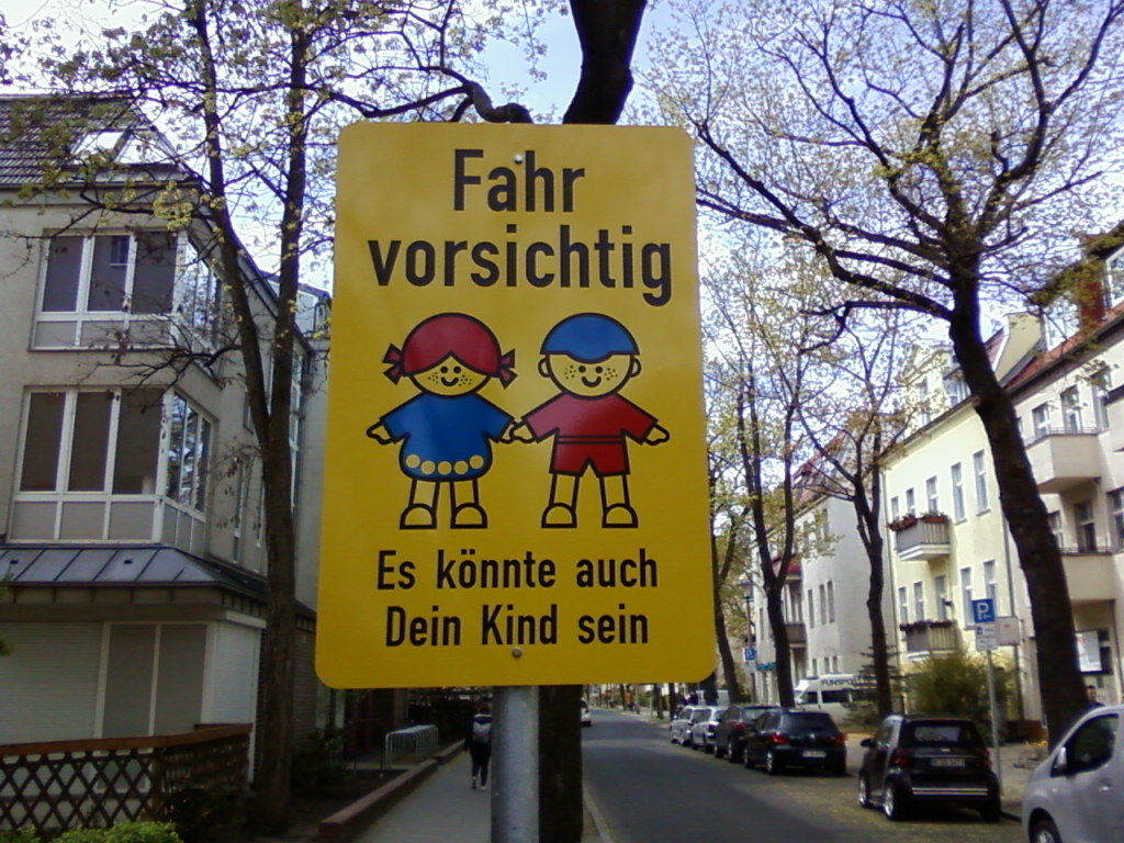 Verkehrskommunikation, Warnhinweis: "Fahr vorsichtig - Es könnte auch Dein Kind sein", Ort: Berlin-Karlshorst